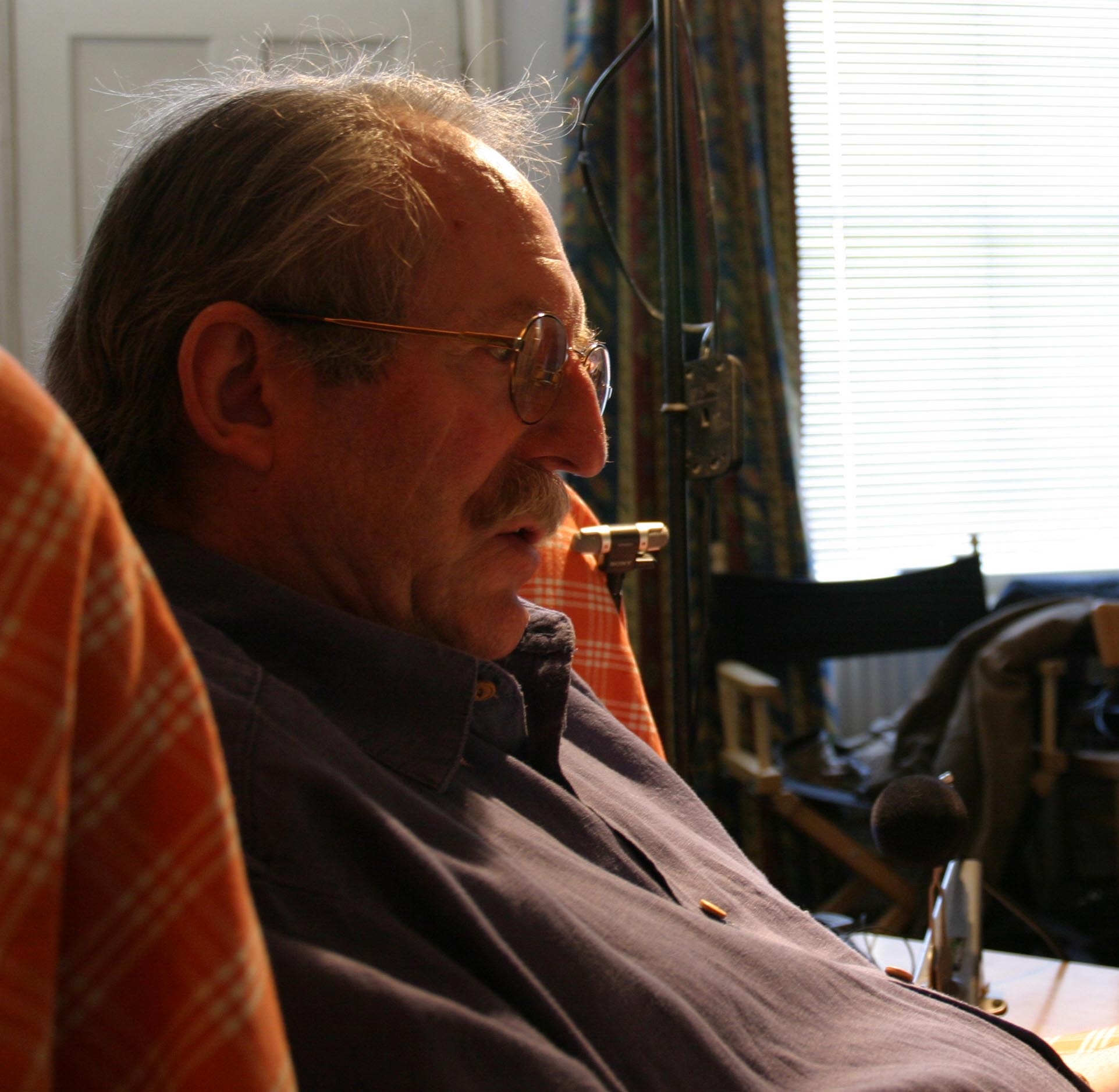 Tom Raworth photographed during the video taping of Add-Verse by Gloria Graham, 2003